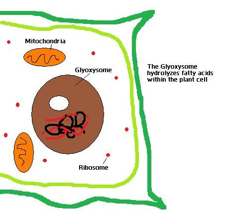 A picture of a glyoxysome and other organelles within a plant cell